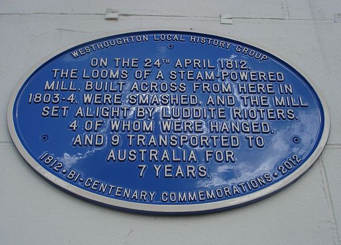 Blue Plaque on White Lion public house, Westhoughton, commemorating the burning of Westhoughton Mill in 1812.